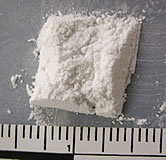 Powder sampe, containing (as two main ingredients): mannitol (62%), fentanyl (23%). Quoting from the source: "The exhibit was seized by a Lake County Deputy Sheriff from the floor of a gas station restroom in Painesville, [Ohio]. ... Analysis of the homogenized powder (total net mass 0.71 grams) by GC/MS and FTIR ... indicated ... 23 percent fentanyl, 0.7 percent despropionyl fentanyl, trace (0.1 percent) cocaine, and 62 percent mannitol."